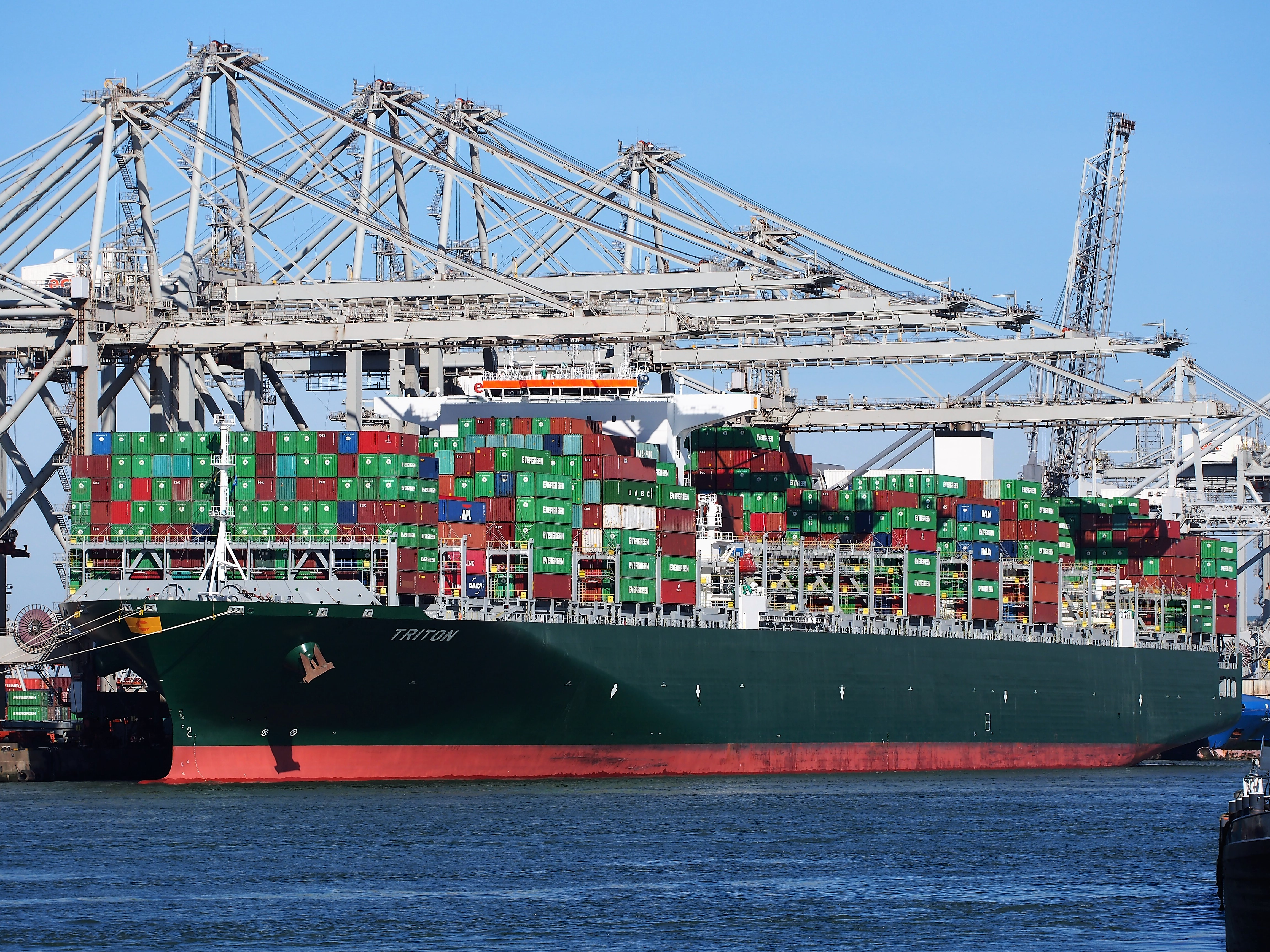 Photographed at Port of Rotterdam, The Netherlands.